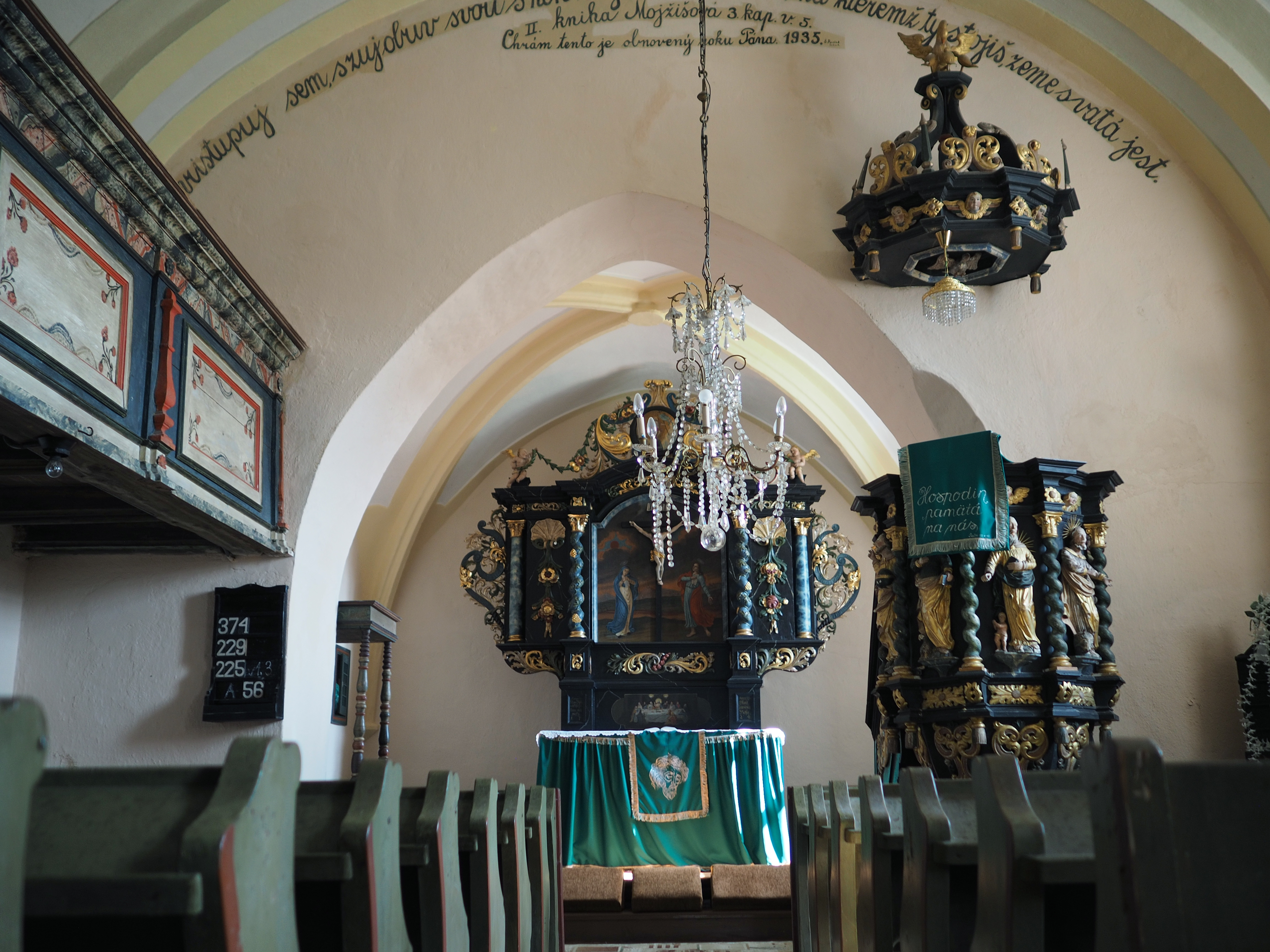 Interior of the Lutheran Church in Roštár, Slovakia.